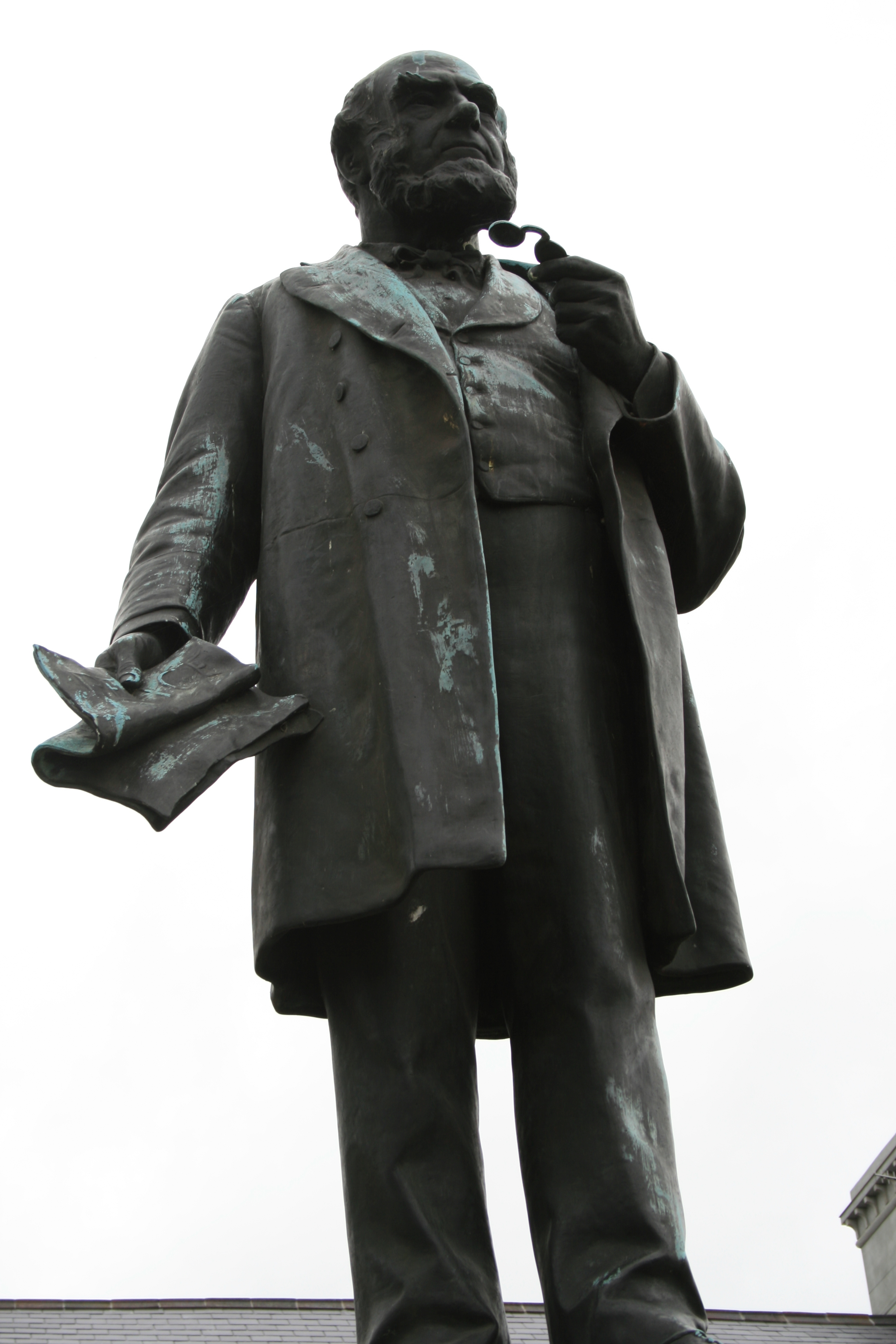 BORN HERE IN TREGARON, HE WAS EDUCATED FOR THE CHRISTIAN MINISTRY, AND IN / 1835 HE WAS ORDAINED IN LONDON. IN 1848 HE WAS APPOINTED SECRETARY TO THE / PEACE SOCIETY GAINING AN INTERNATIONAL REPUTATION AS "THE APOSTLE OF PEACE." / IN 1868 HE BECAME M.P. FOR THE MERTHYR CONSTITUENCY: AND SUCH WAS HIS CONCERN / FOR WELSH AFFAIRS THAT HE BECAME KNOWN AS "THE MEMBER FOR WALES." HE WAS / ALSO A PROMINENT PIONEER IN EDUCATION: HE SERVED ON SEVERAL COMMISSIONS OF / ENQUIRY, AND IN 1883 HE BECAME THE FIRST VICE-PRESIDENT OF CARDIFF UNIVERSITY / COLLEGE." / "I HAVE ALWAYS BEEN MINDFUL OF THREE THINGS: NOT TO FORGET THE LANGUAGE OF / MY COUNTRY: AND THE PEOPLE AND CAUSE OF MY COUNTRY: AND TO NEGLECT NO / OPPORTUNITY OF DEFENDING THE CHARACTER AND PROMOTING THE INTERESTS OF / MY COUNTRY." / "MY HOPE FOR THE ABATEMENT OF THE WAR SYSTEM LIES IN PERMANENT CONVICTION / OF THE PEOPLE, RATHER THAN THE POLICIES OF CABINETS OR THE DISCUSSIONS OF / PARLIAMENTS."